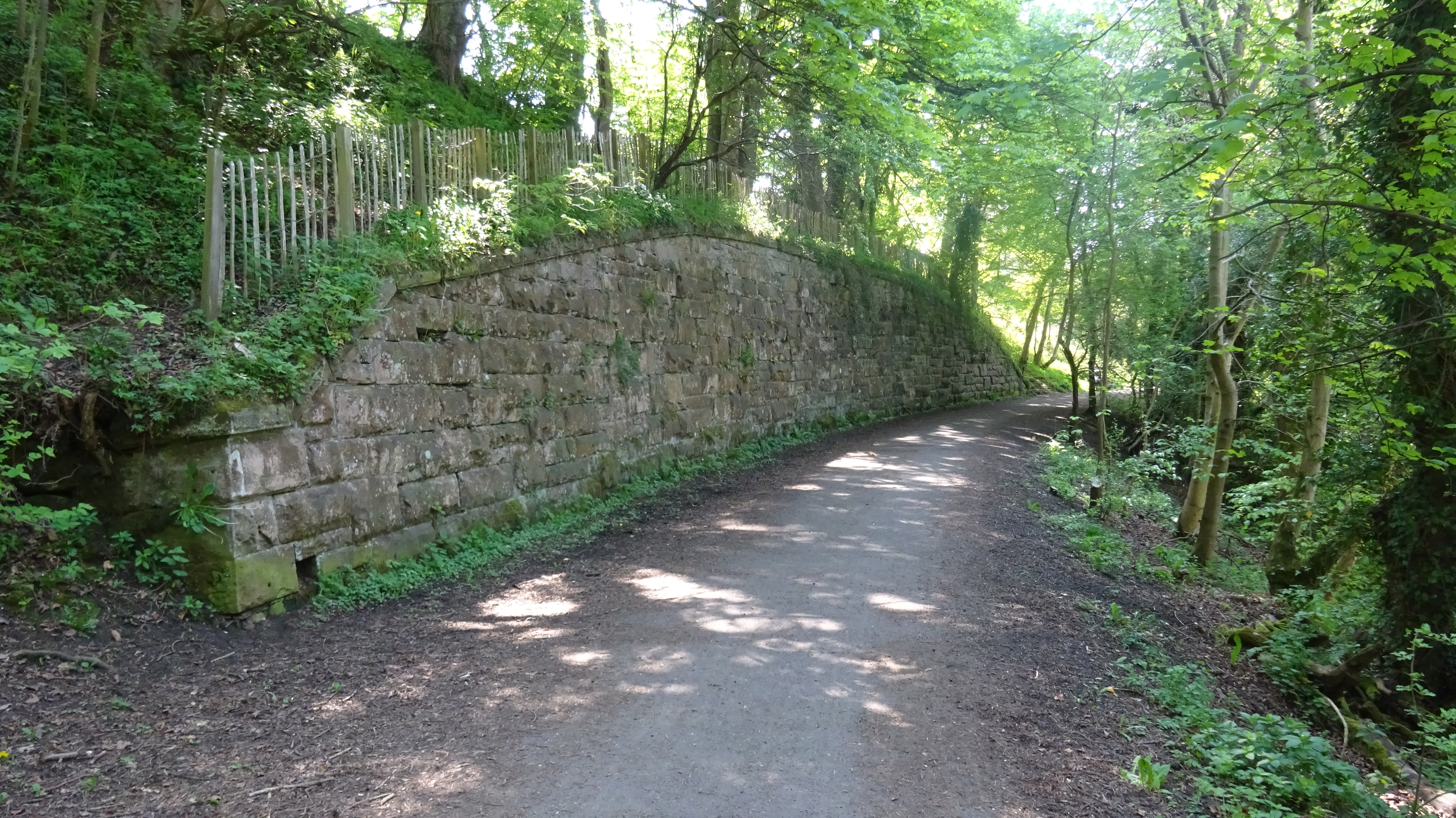 Retaining Wall, Currie, Balerno Loop Line, Midlothian, Scotland. Dougal Haston used to practive rock clibing on the reatining walls on the old line.